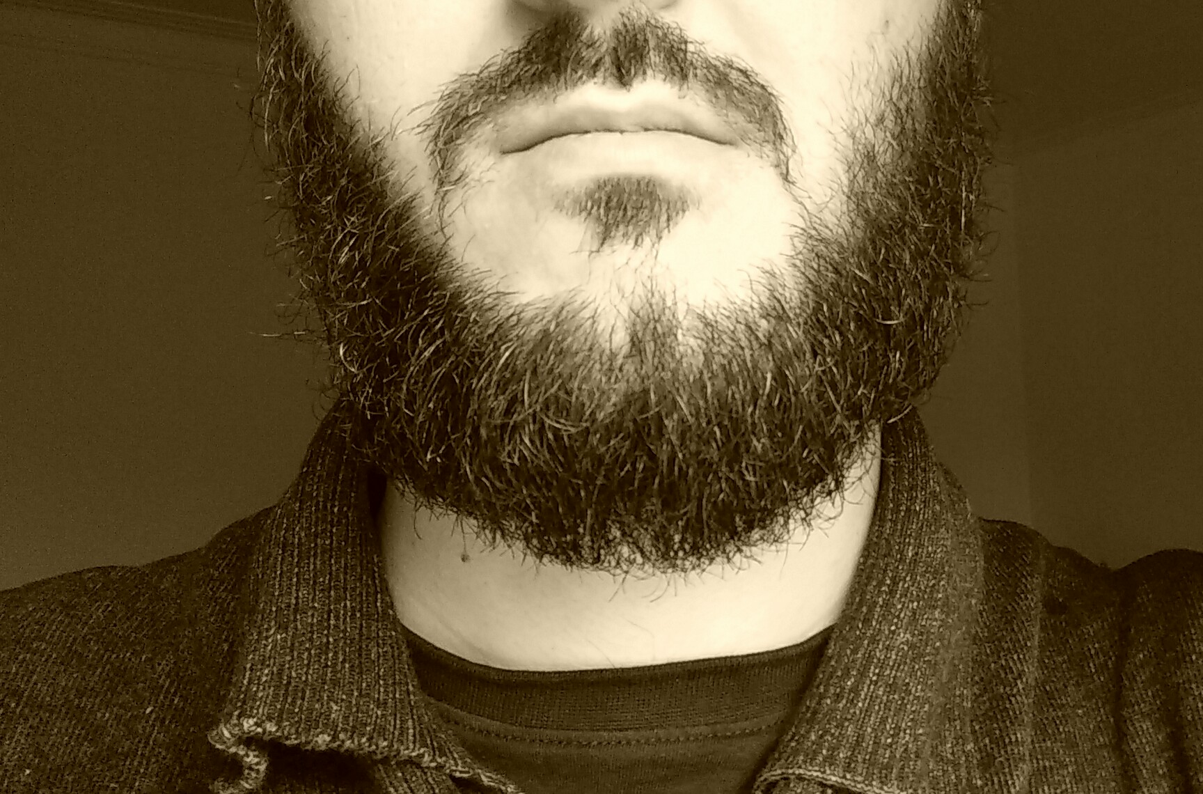 A young bearded muslim man